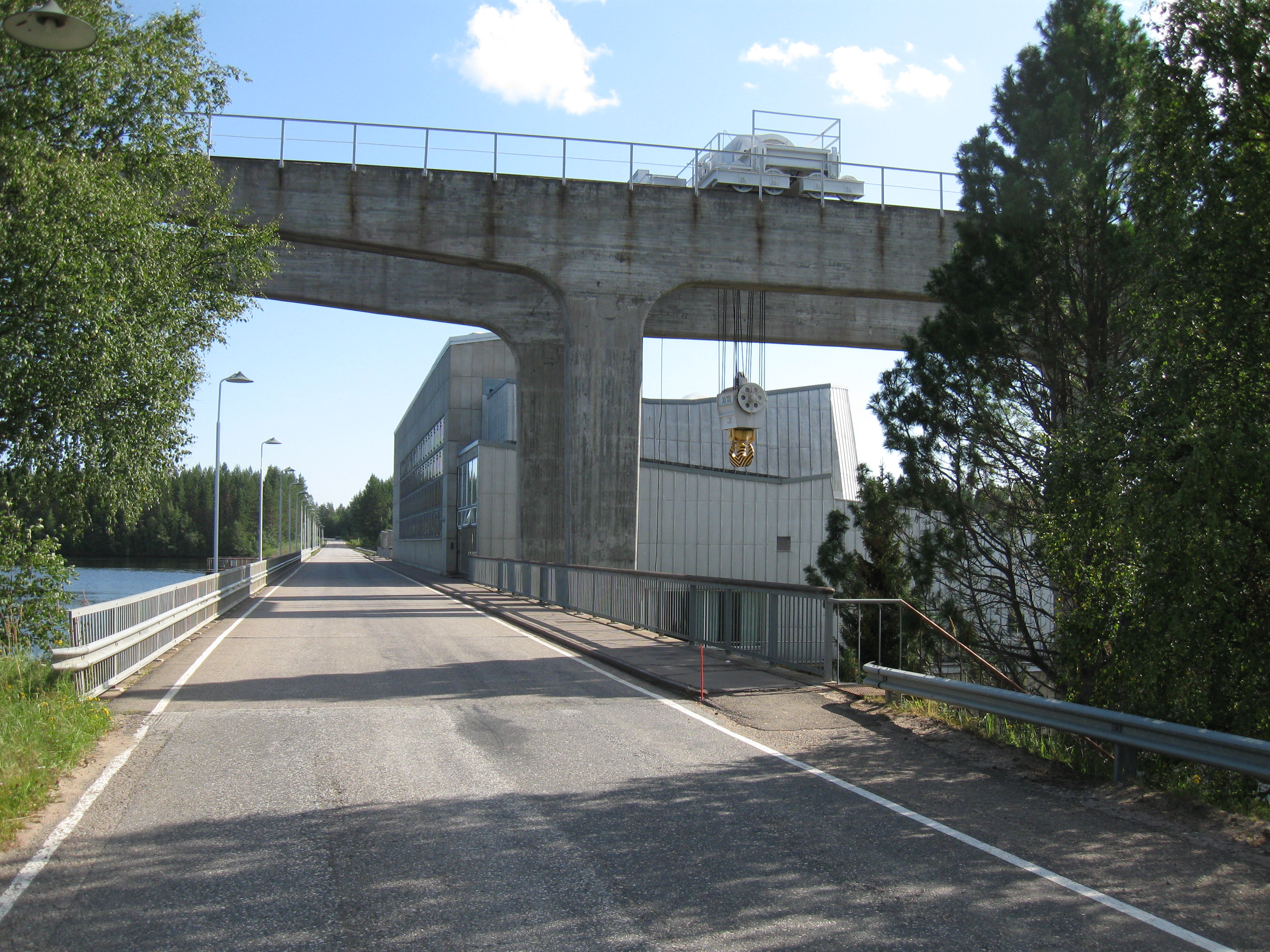 The overhead crane of the Nuojua hydroelectric power plant of the Oulujoki river in Vaala, Finland.